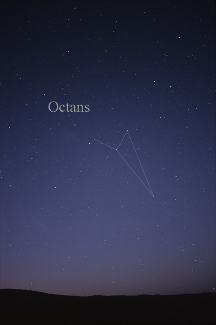 Photography of the constellation Octans, the octant